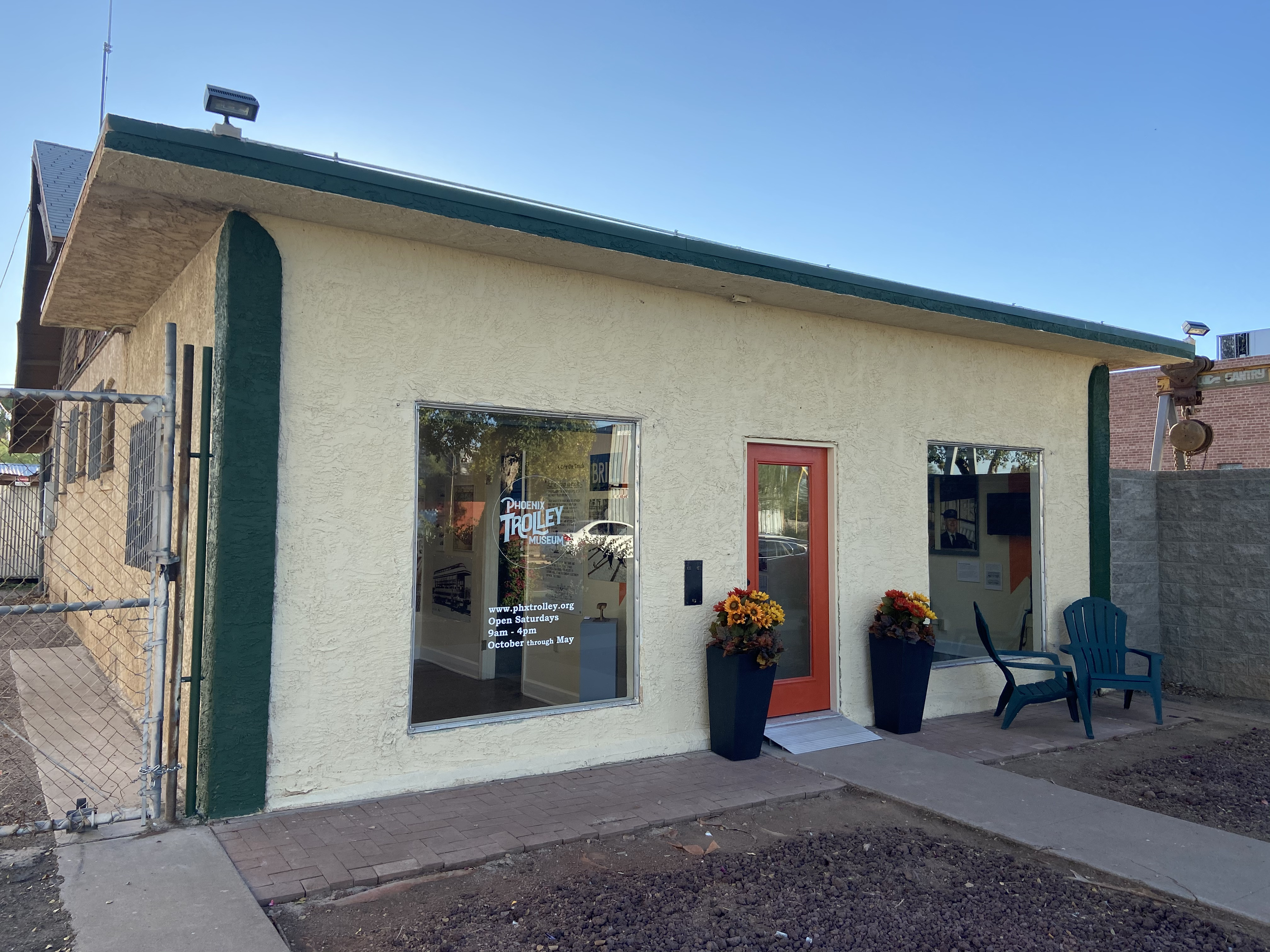 The Phoenix Trolley Museum board of directors and volunteers improved the exterior and interior exhibit space in 2019.